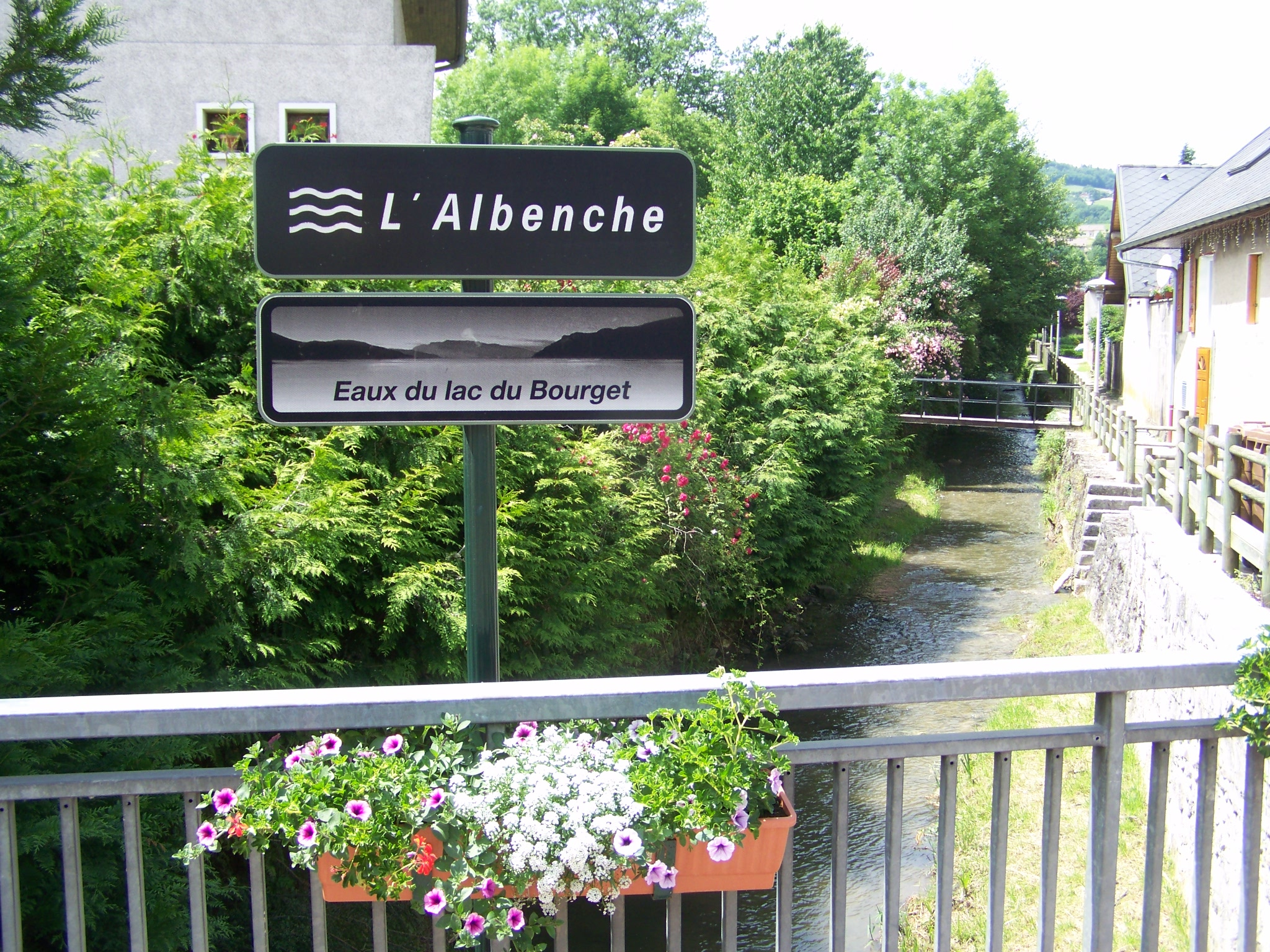 River Albenche seen in Albens in Savoie, France.